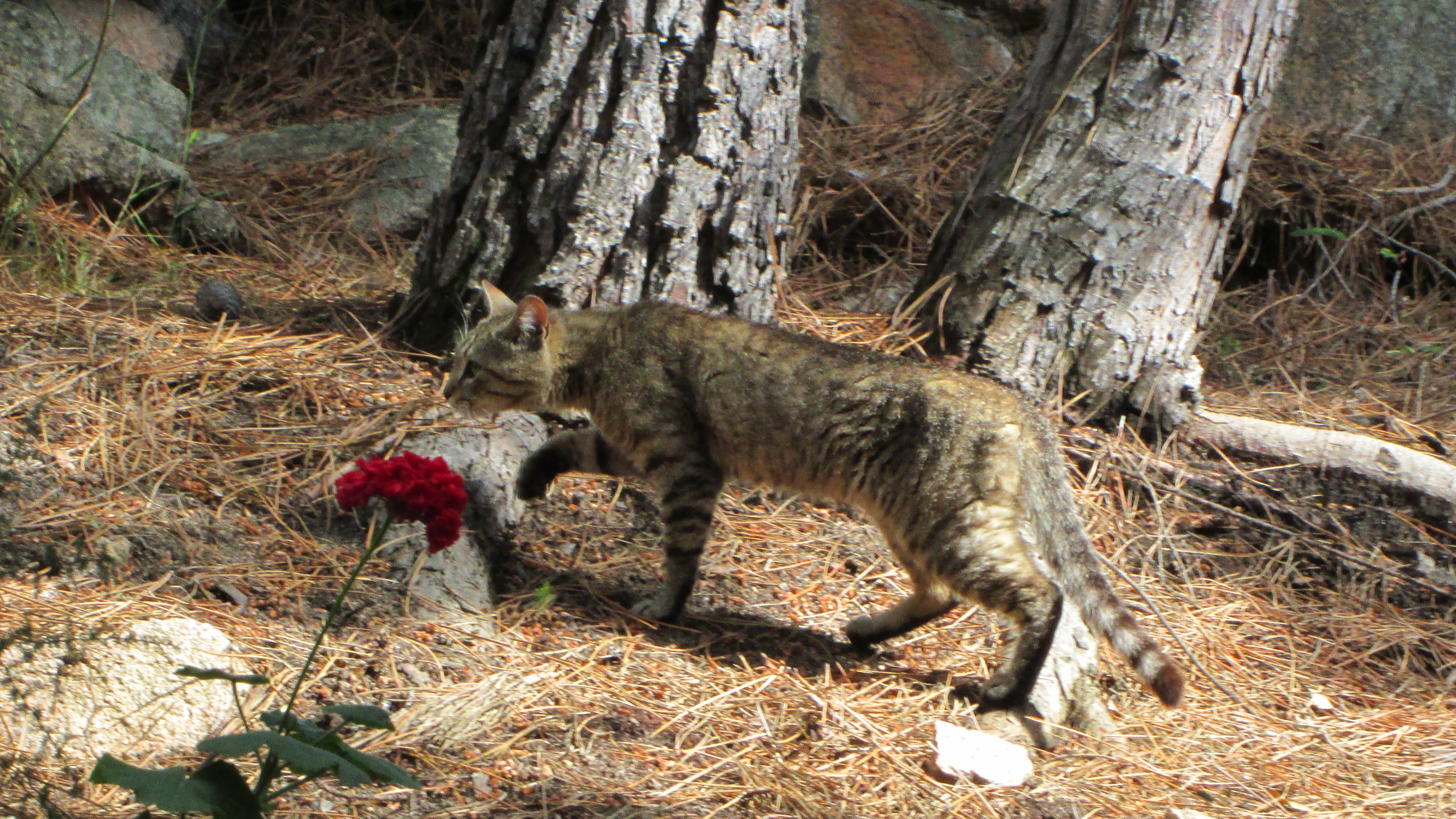 Sardinian wild cat in its environment, Mediterranean coastal forest